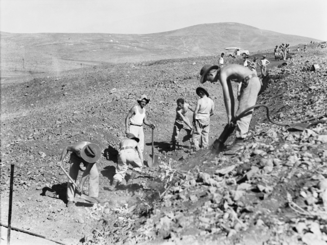 Australians from the 2/2nd Pioneer Battalion digging defences in Syria, November 1941